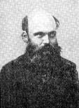 The Hungarian painter László Mednyányszky (1852-1919)